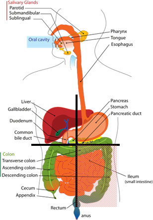 image showing contents of LLQ which are descending colon, sigmoid colon, left ovary and Fallopian tube or left ureter